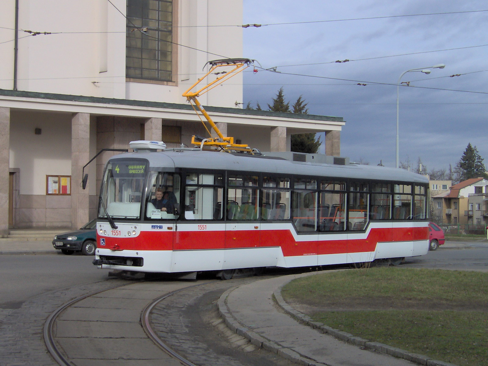 Vario LF tram in Brno.